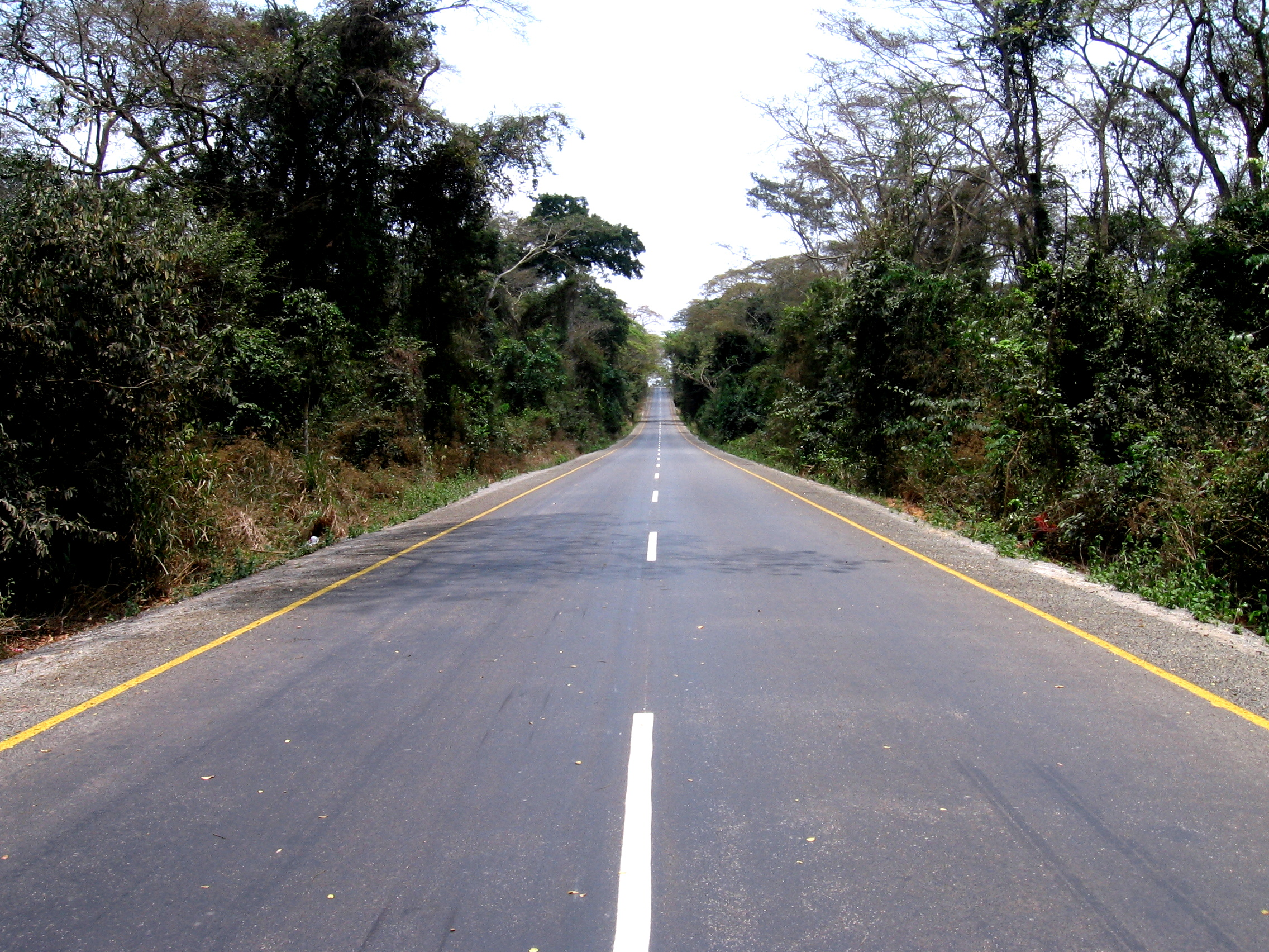 Overland road Luanda - Uíge recently rehabilitated by Chinese construction company